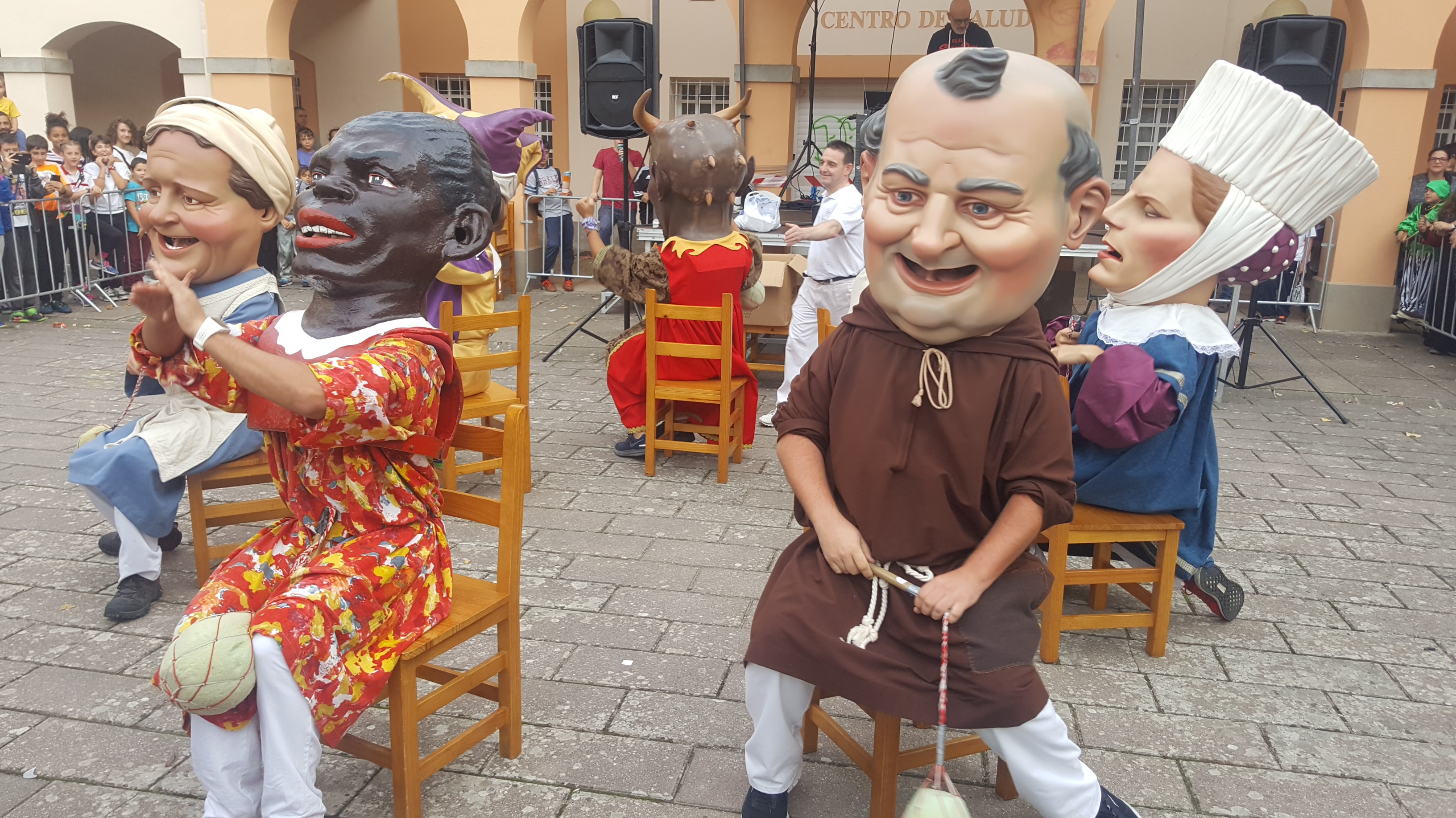 Giant figures dancing in the streets on holidays of Atarrabia in Navarre.